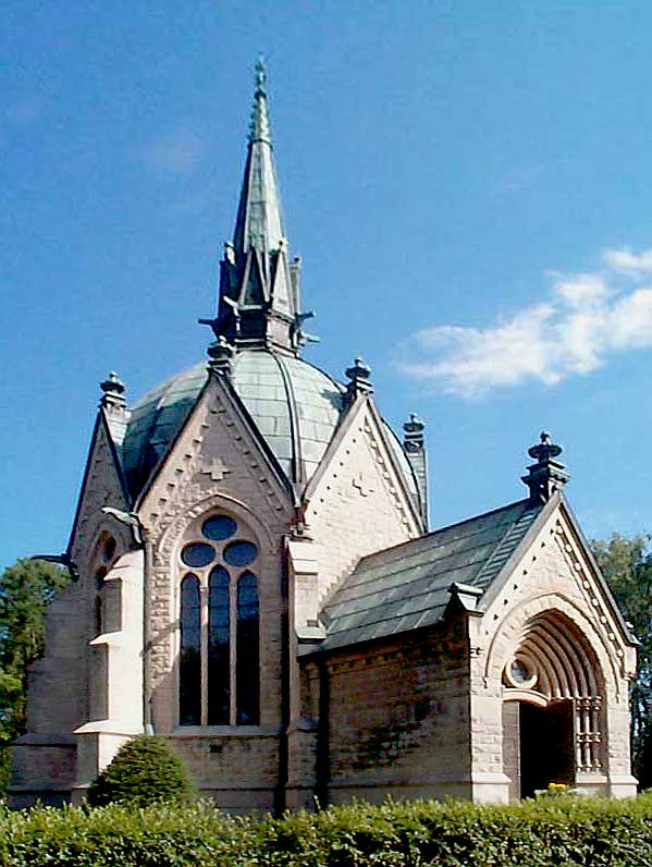 Juselius mausoleum in Pori, Finland